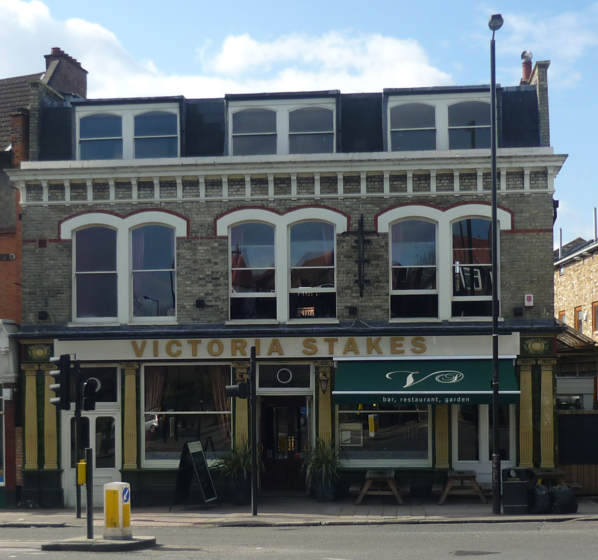 "Victoria Stakes" public house, London N8 The name of this public house is reminder that there was once a racecourse at nearly Alexandra Park.